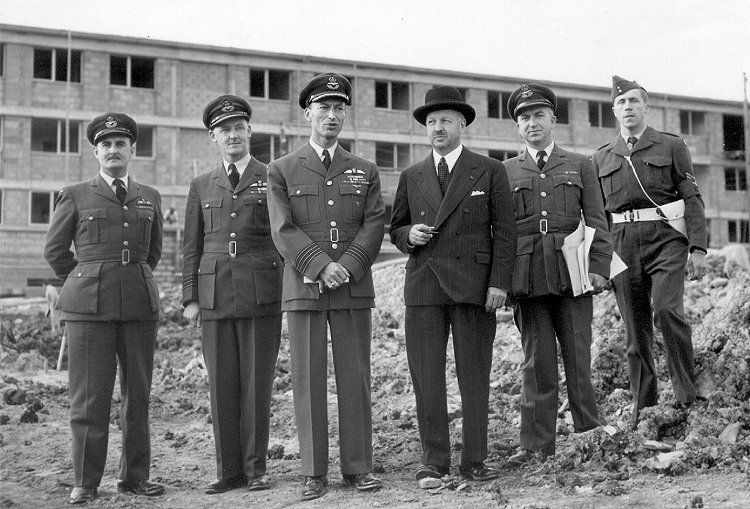 Royal Canadian Air Force permanent married quarters (PMQs) construction inspection by Royal Canadian Air force staff, St. Avold, France, 1954. Air Vice Marshal W.A. Curtis is in civilian suit. These married quarters accommodated dependents of service personnel from RCAF Station Grostenquin, France.